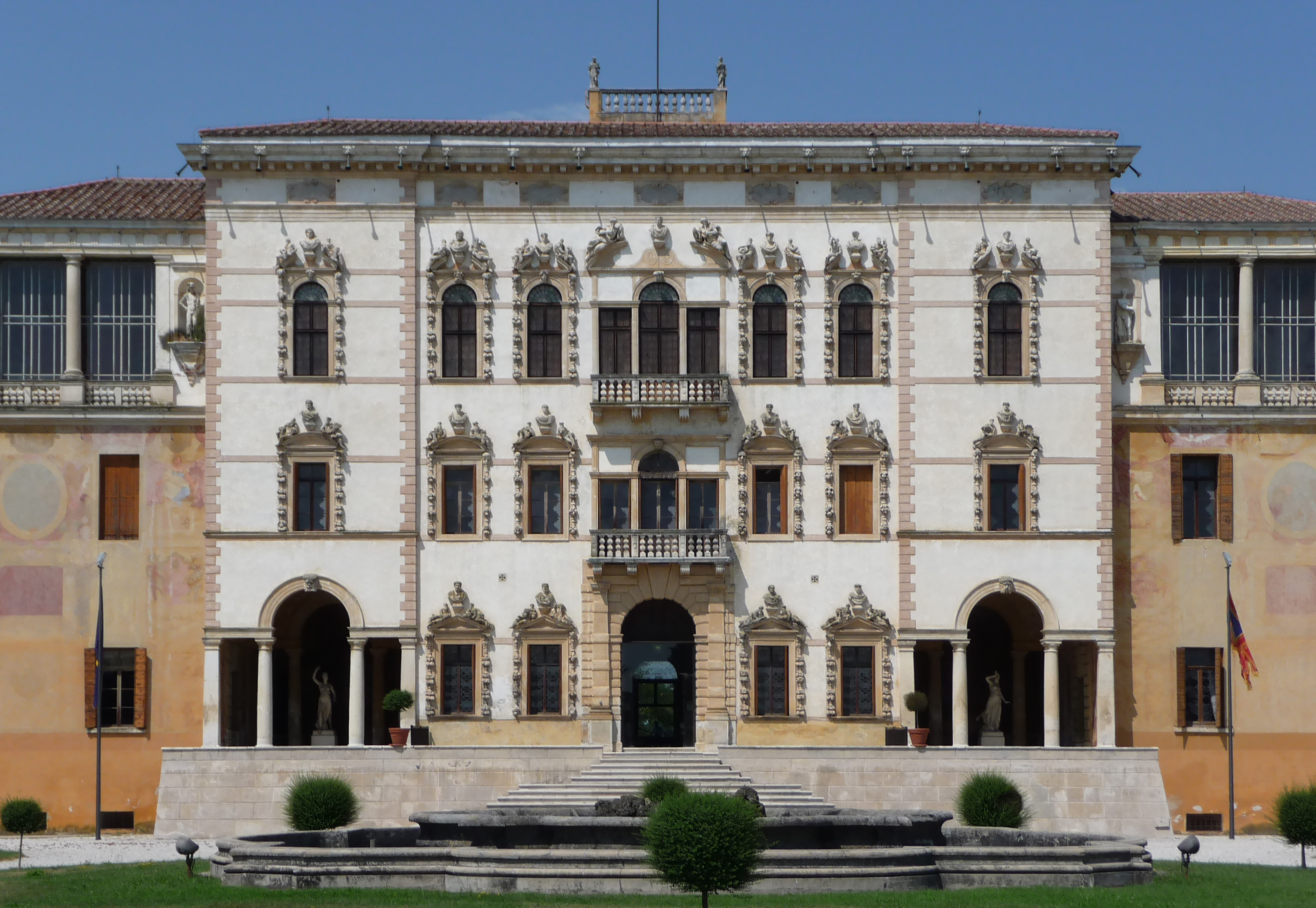 Villa Contarini is a patrician villa veneta in Piazzola sul Brenta, province of Padova, northern Italy. (→Villa Contarini)